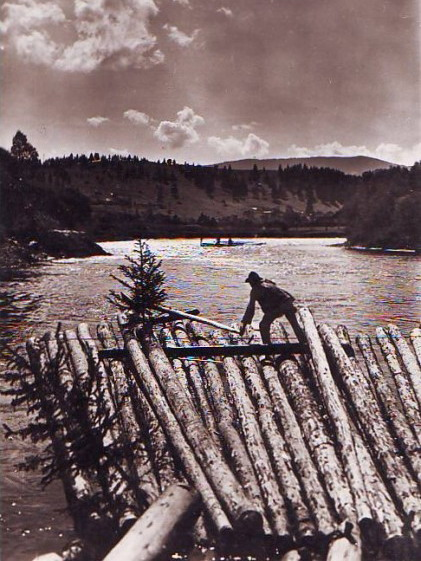 Timber rafting on Bistritsa river, Bacau county, Romania, 1910